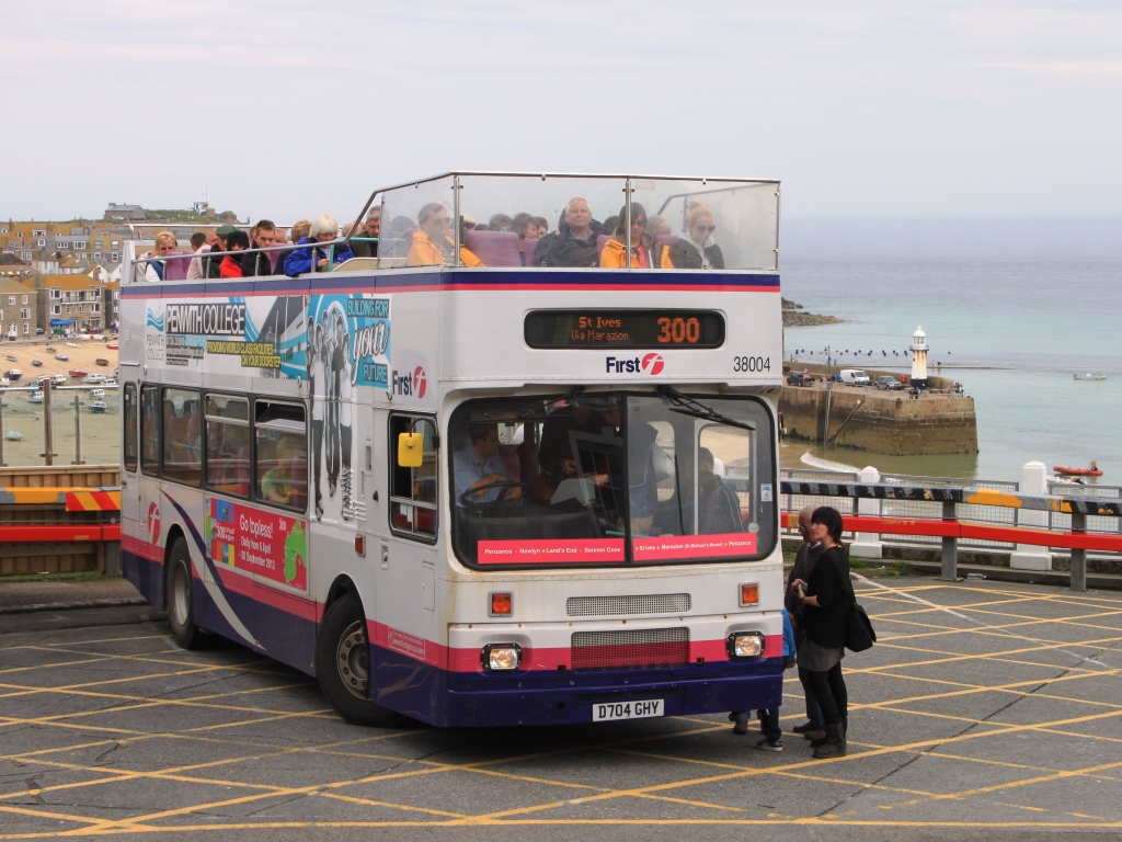 A First Devon and Cornwall open top service calls at St Ives Bus Station on its round-Lands End service. It is number 38004 (D704 GHY), a Volvo with Alexander body that was new to Badgerline but has now had its roof removed for tourist services in Cornwall.